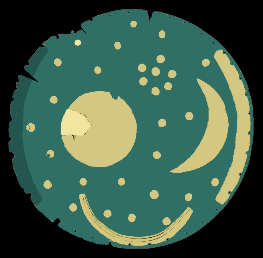 Nebra skydisc, today's state (simplified depiction).